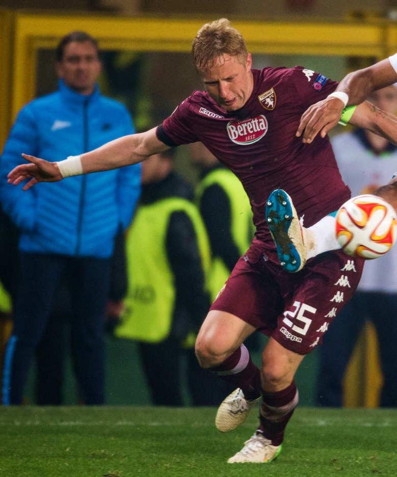 20.03.15. Италия, Турин, «Стадио Олимпико». Лига Европы УЕФА, 1/8 финала, «Торино» — «Зенит». Kamil Glik